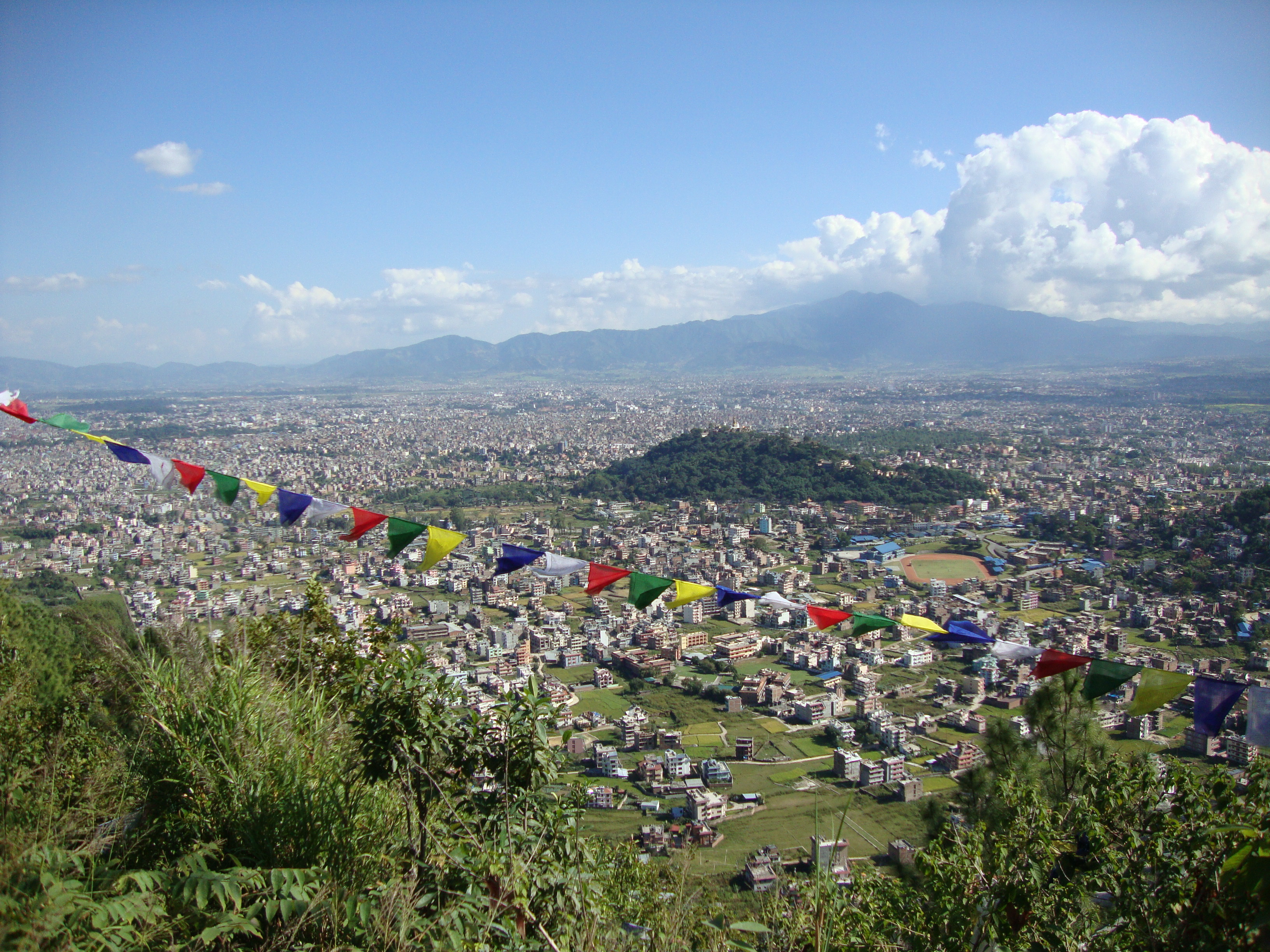 View of Kathmandu Valley on the way to Jamacho Peak (2095 m) at Shivapuri Nagarjun National Park, Nepal. The green hillock of Swayambhunath and Armed Police Force's Halchowk Ground is also seen at the foreground. The Jamacho Peak also has a Buddhist monastery.नेपाली: शिवपुरी नागार्जुन राष्ट्रिय निकुन्जमा रहेको जमाचो चुचुरो (२०९५ मि) जाँदा देखिने काठमाडौँ उपत्यकाको दृश्य । पृष्ठभूमिमा स्वयम्भुनाथको डाँडो र सशस्त्र प्रहरी बलको हल्चोक मैदान पनि देखिन्छ । जमाचो चुचुरोमा एक बौद्ध गुम्बा पनि रहेको छ ।